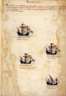 Depiction of the 3rd Portuguese India Armada (fleet of João da Nova, 1501) from the Livro das Armadas (Academia de Ciencias de Lisboa)